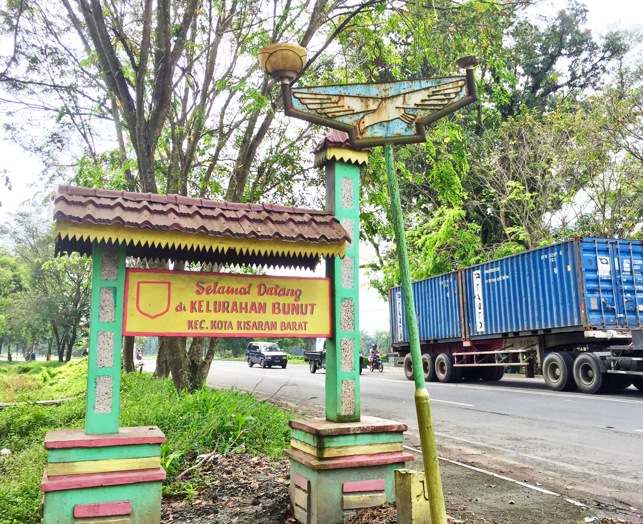 welcome sign to Bunut, Kisaran Barat, Asahan